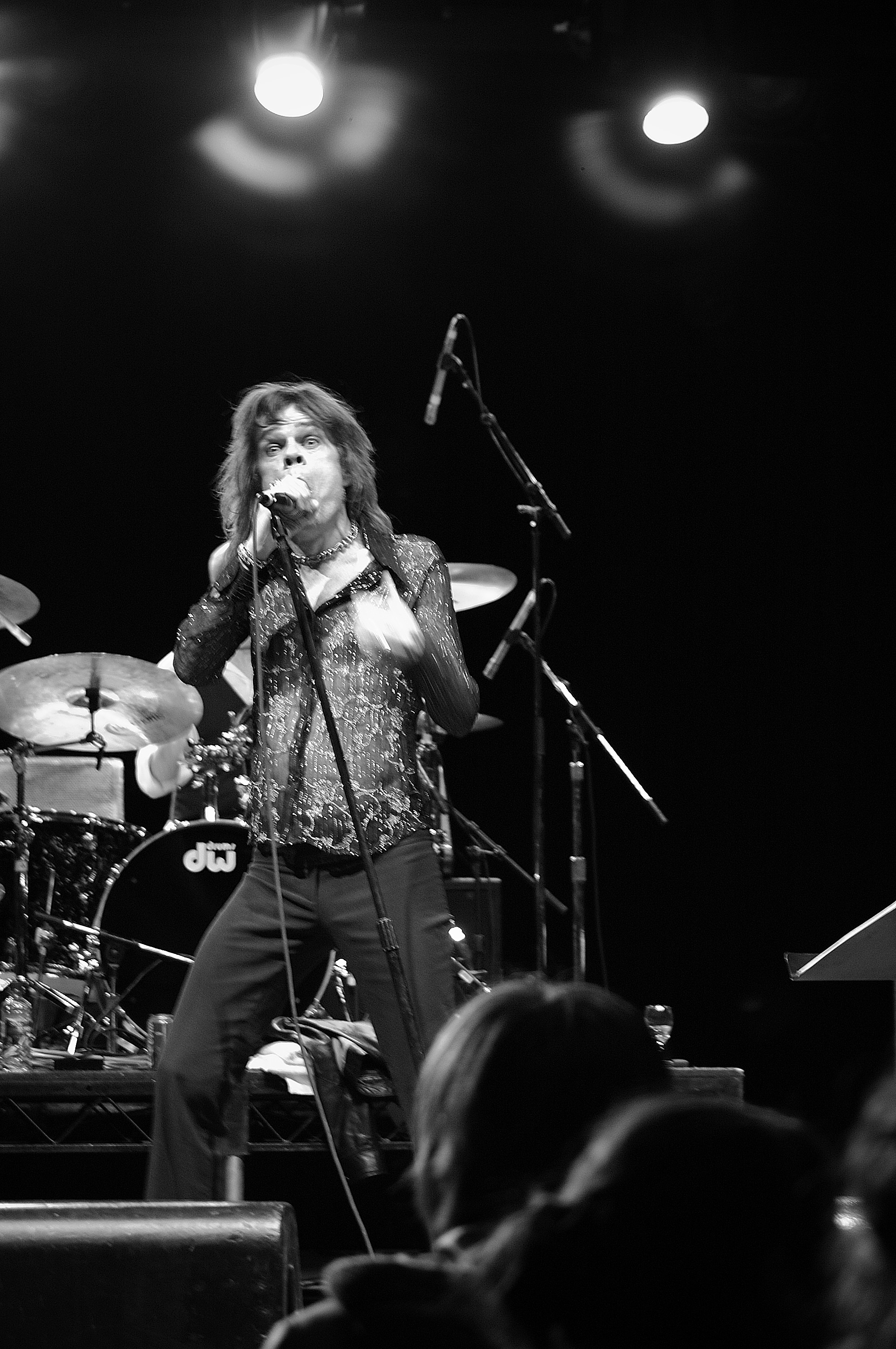 David Johansen of New York Dolls. Copyright Diego DeNicola 2007